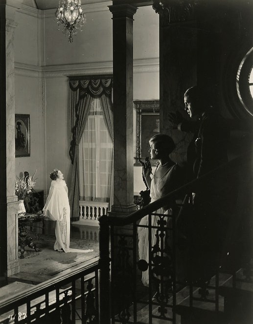 L. to R. : Pauline Frederick, Laura La Plante, and Malcolm McGregor in the American film Smouldering Fires (1925) - publicity still (cropped : see source)